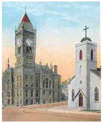 Wapello County Courthouse and St. Mary of the Visitation Catholic Church in Ottumwa, Iowa. The picture shows them as they appear before the church was torn down and replaced by the present church in the 1920s and the courthouse bell tower was removed in the 1950s.